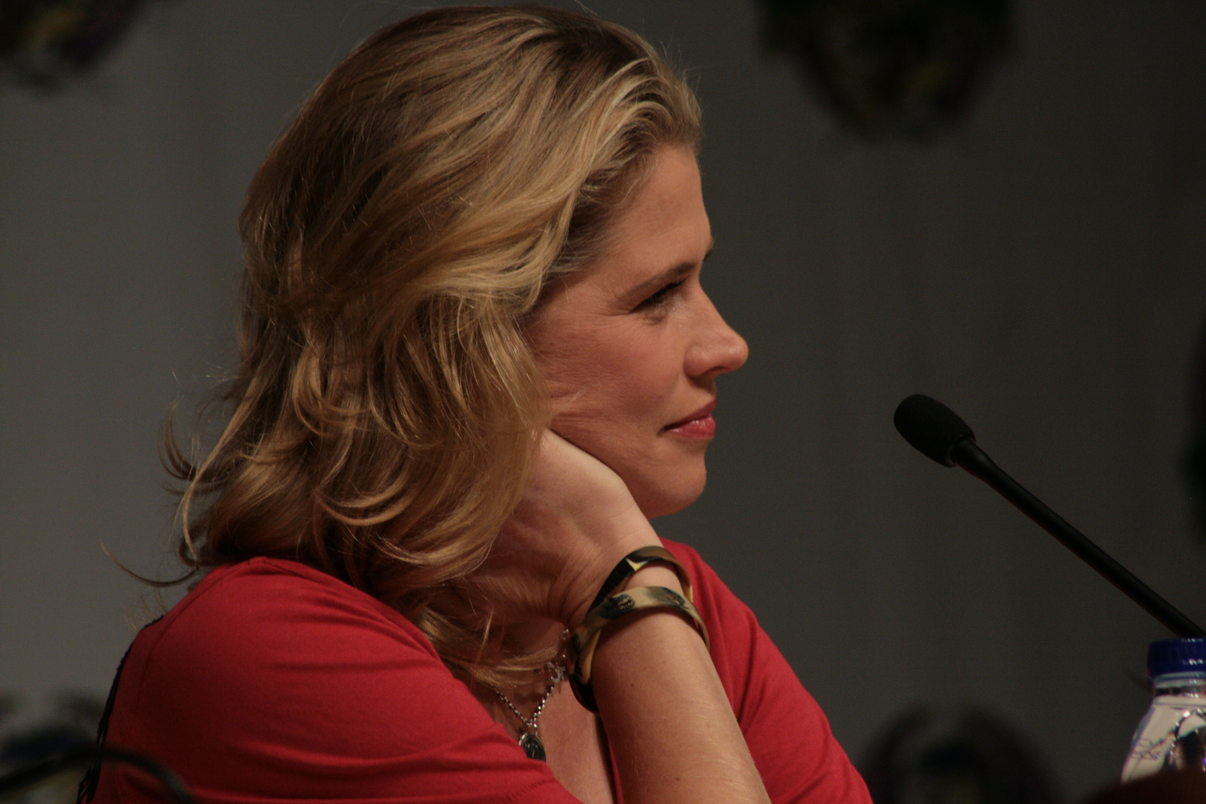 Actress Kristy Swanson DragonCon 2009.